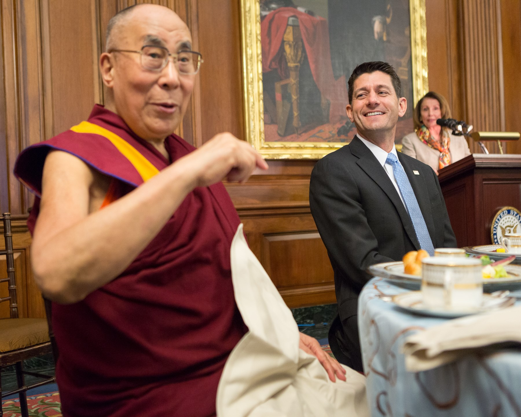 Yesterday, House Speaker Paul Ryan (R-WI) attended a luncheon honoring His Holiness the Dalai Lama in the Rayburn Room of the U.S. Capitol.